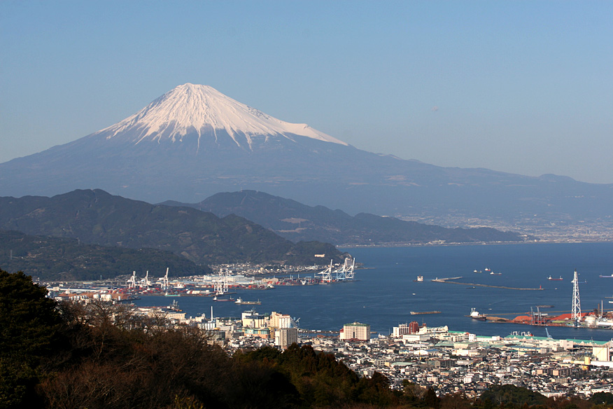 Mt Fuji at Nihondaira.